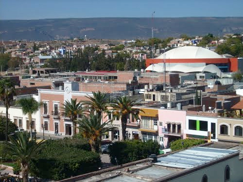 Bello centro de Calvillo